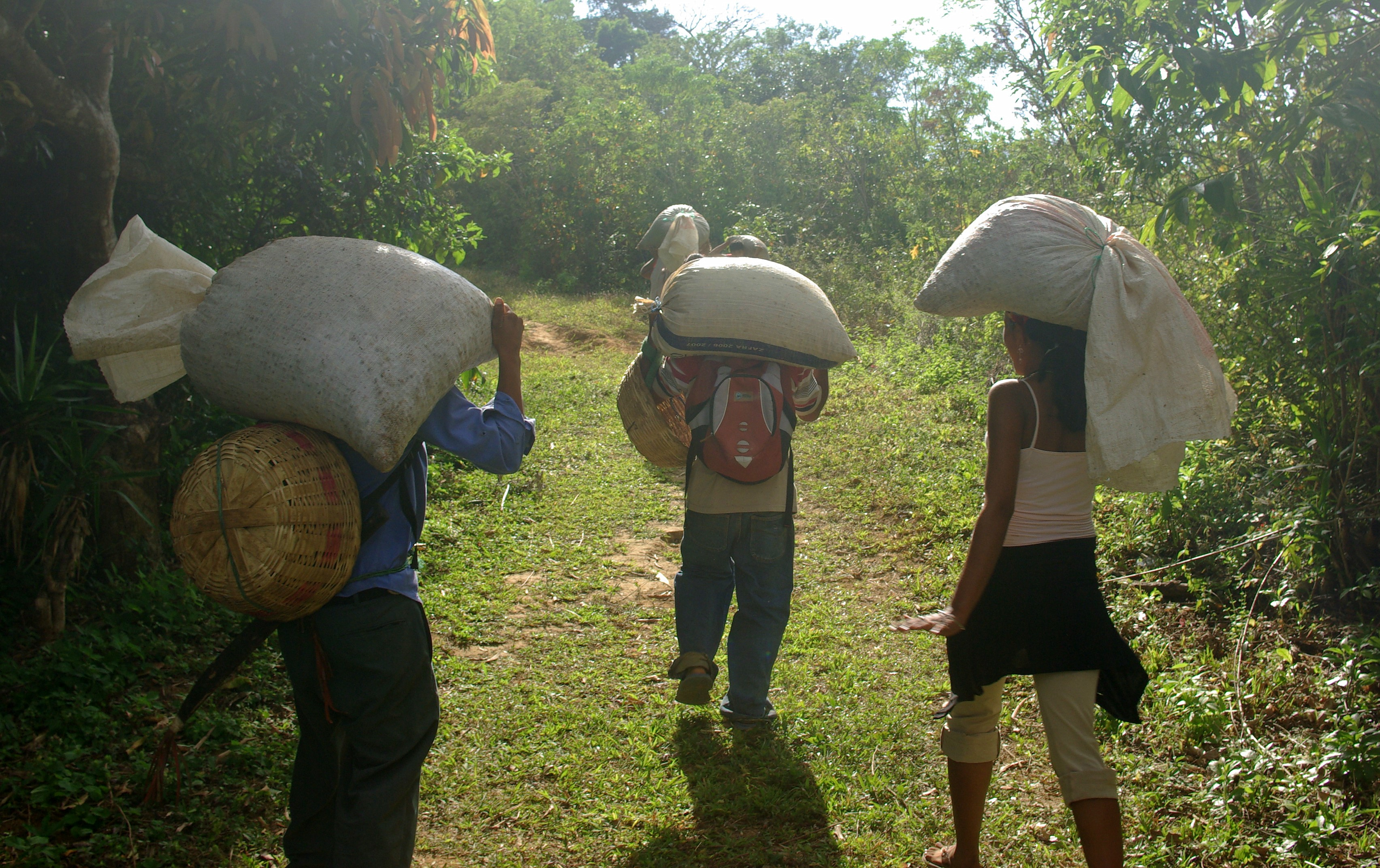 Fair trade Coffee growers in Tacuba in the Parque Nacional El Imposible, El Salvador